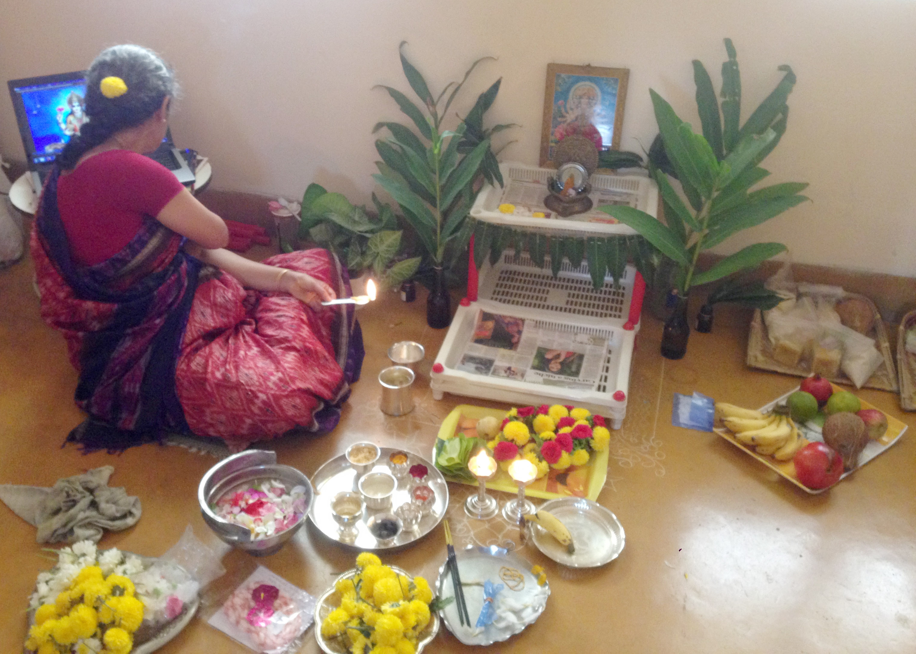 Gowri Habba This photograph shows a married woman performing the Swarna Gowri Vrath based on instructions for worship recorded in some media that is being played on the laptop. Worship includes offering flowers, fruit and various other items. This worship or Pooja is performed the day before Ganesh Chaturthi. The bamboo utensil with Gowri Baagna is visible on the top right corner of the photograph.